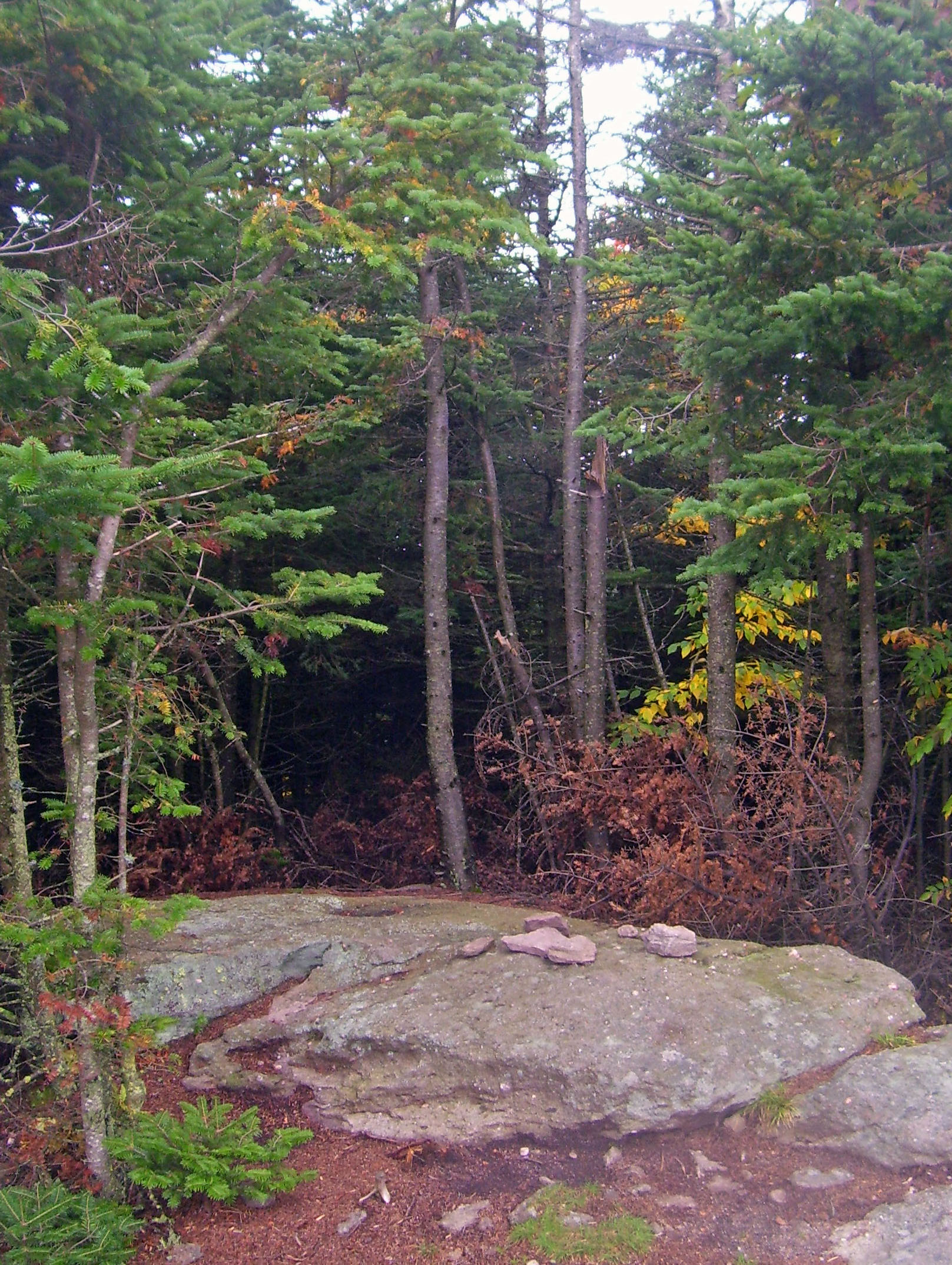 Summit of Balsam Lake Mountain, Hardenburgh, NY, USA